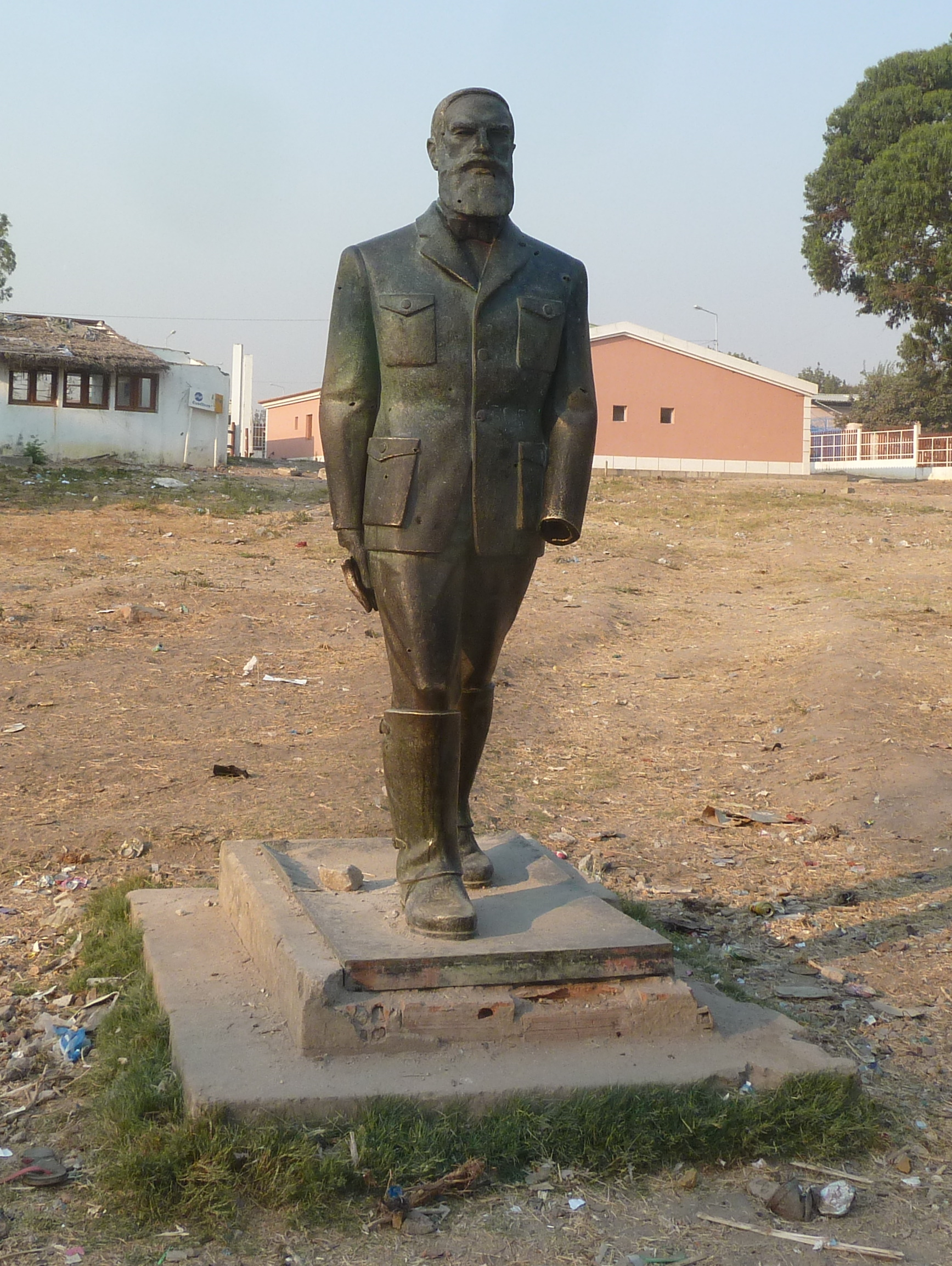 Statue of António da Silva Porto in Kuito, Angola.